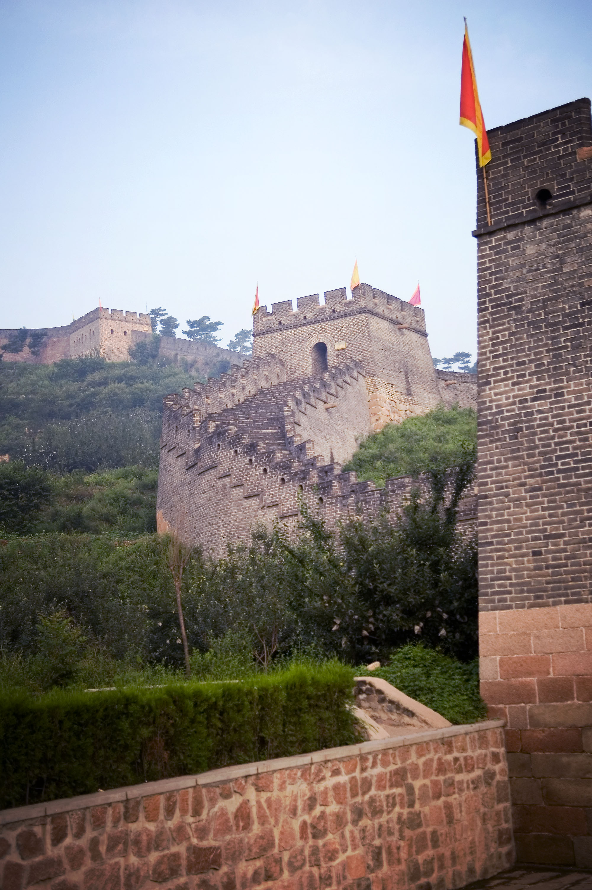 The great wall at Jiumenkou (九門口). Note that the file name and the info in the source are erroneous.